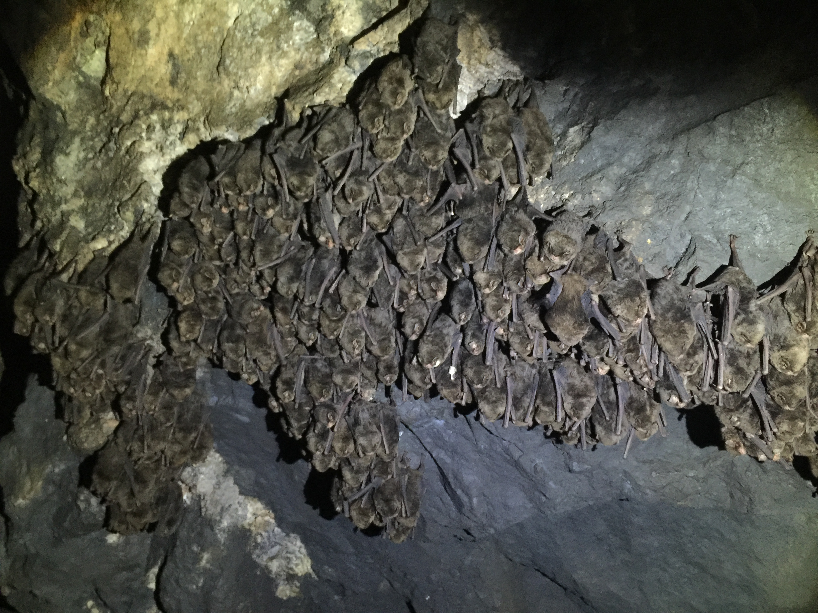 Bat in mine (winter) IWAMI-silver-mine-JAPAN